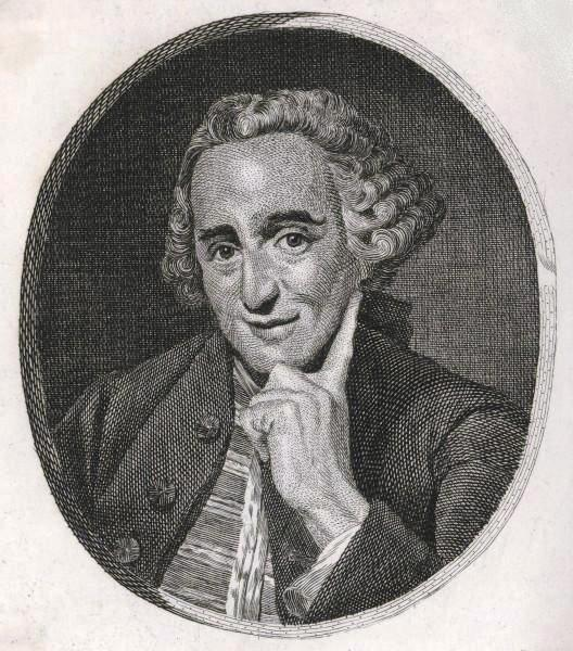 Portrait of Simon François Ravenet, engraving by Johann Zoffany. Royal Academy of Arts, London.